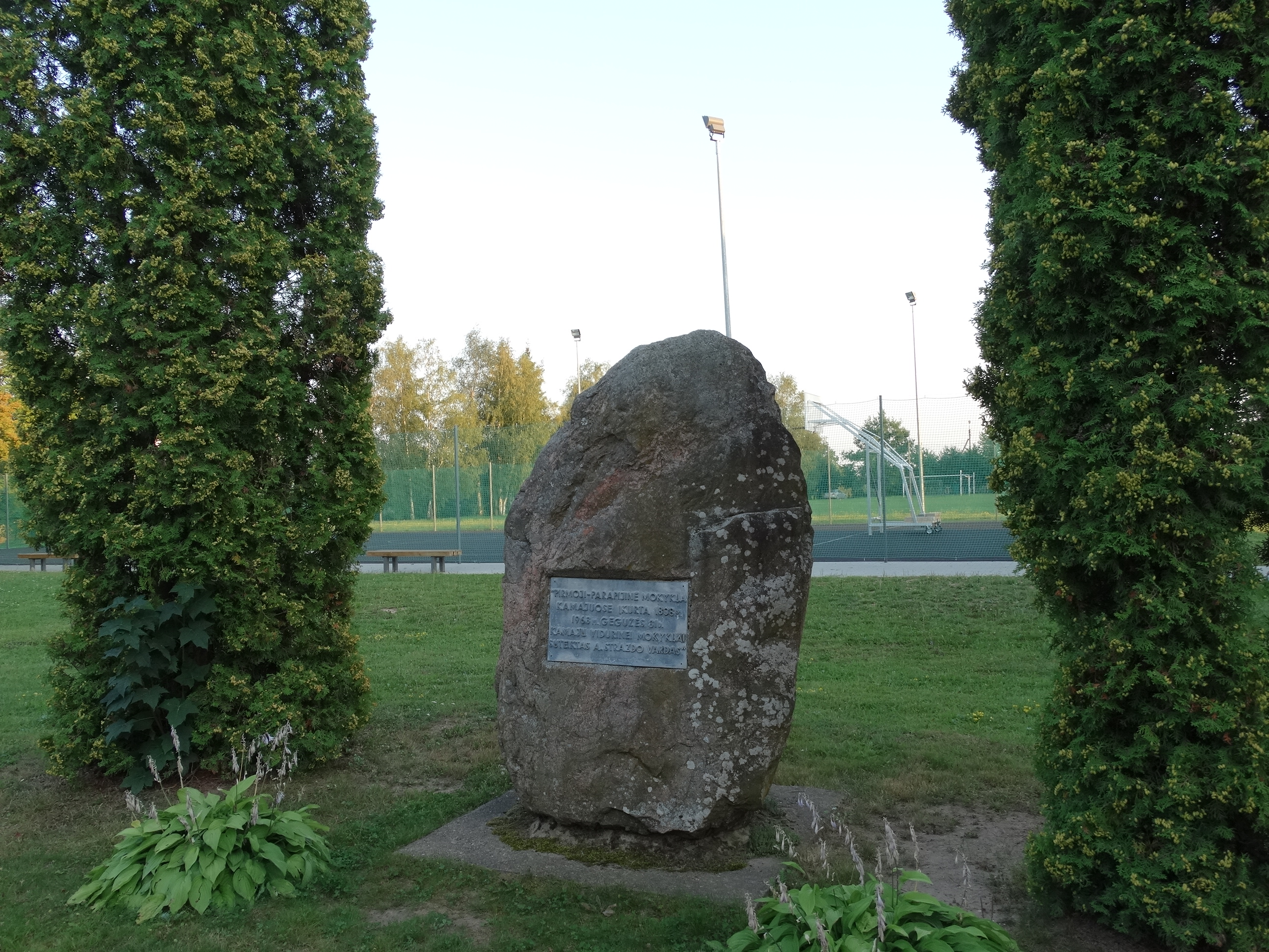 Gymnasium memory stone, Kamajai, Rokiškis District, Lithuania